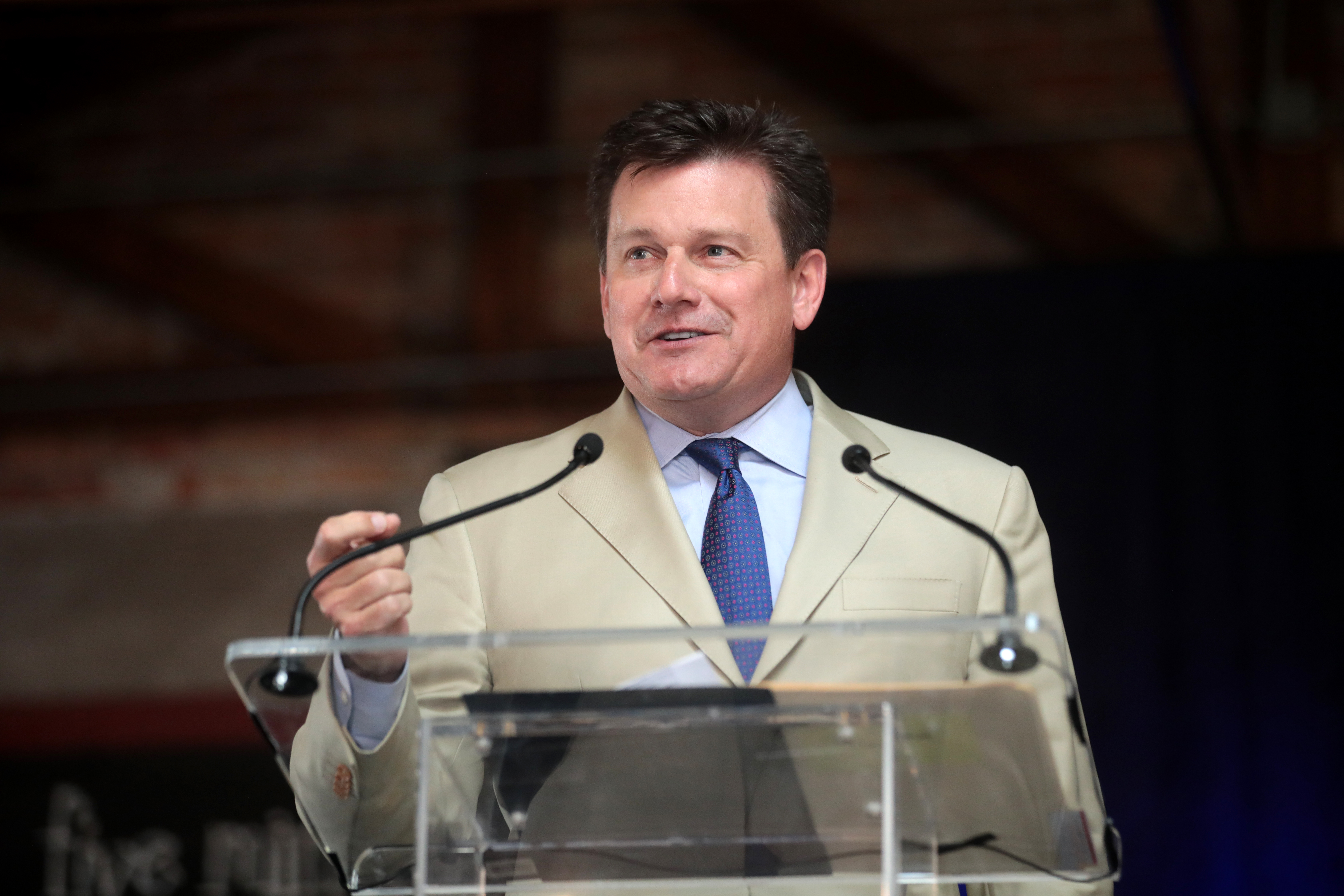 Michael Bidwill speaking with attendees at the 2019 Arizona Technology Innovation Summit at The Duce in Phoenix, Arizona.